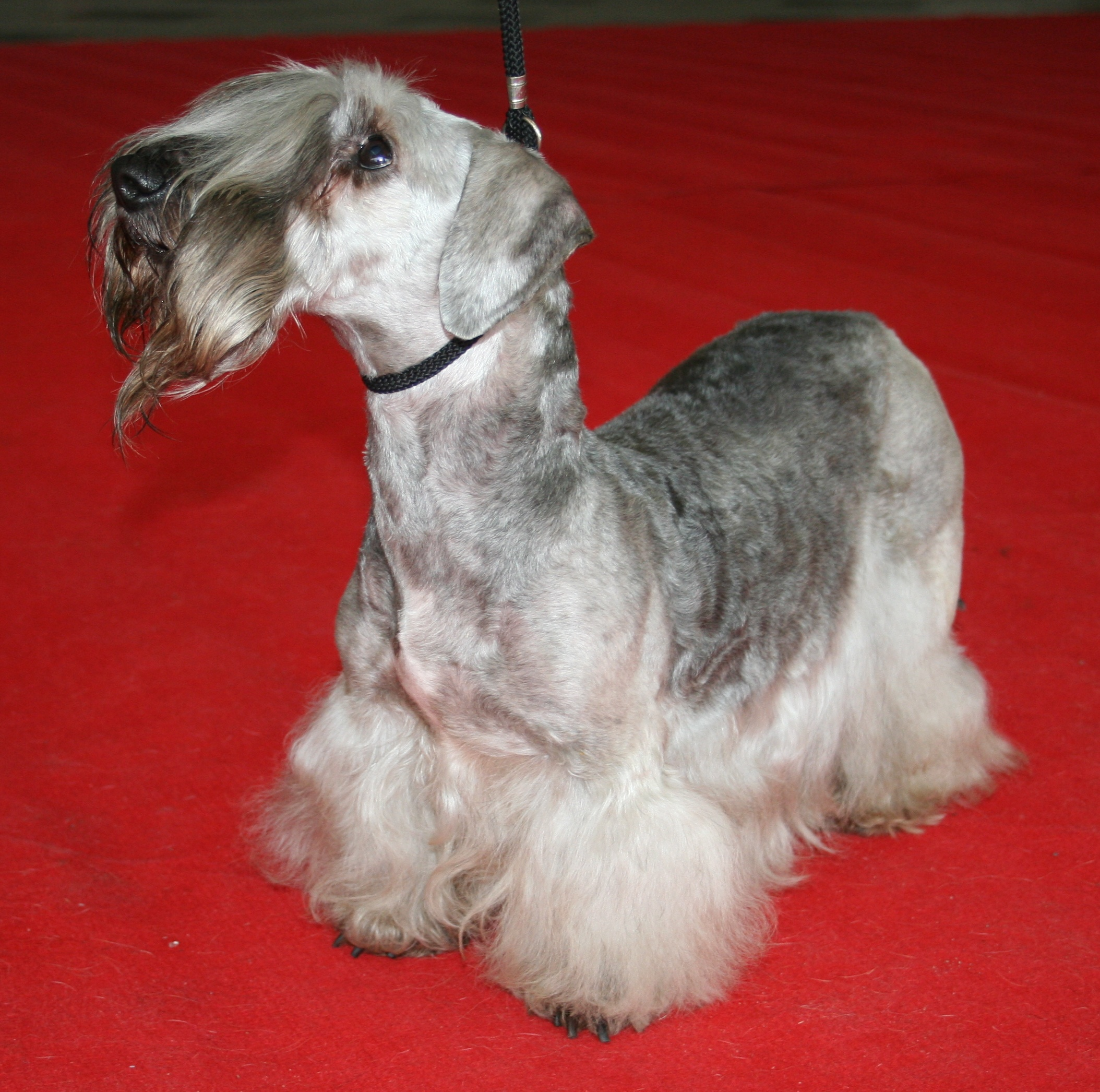 Cesky-Terier - bitche during the international dogs show in Katowice, Poland. It's a female, her name is Amelka Uśmiechnięta Wielocętka. The breeder and owner is Aleksandra Lewalska - Piguła from Poland.